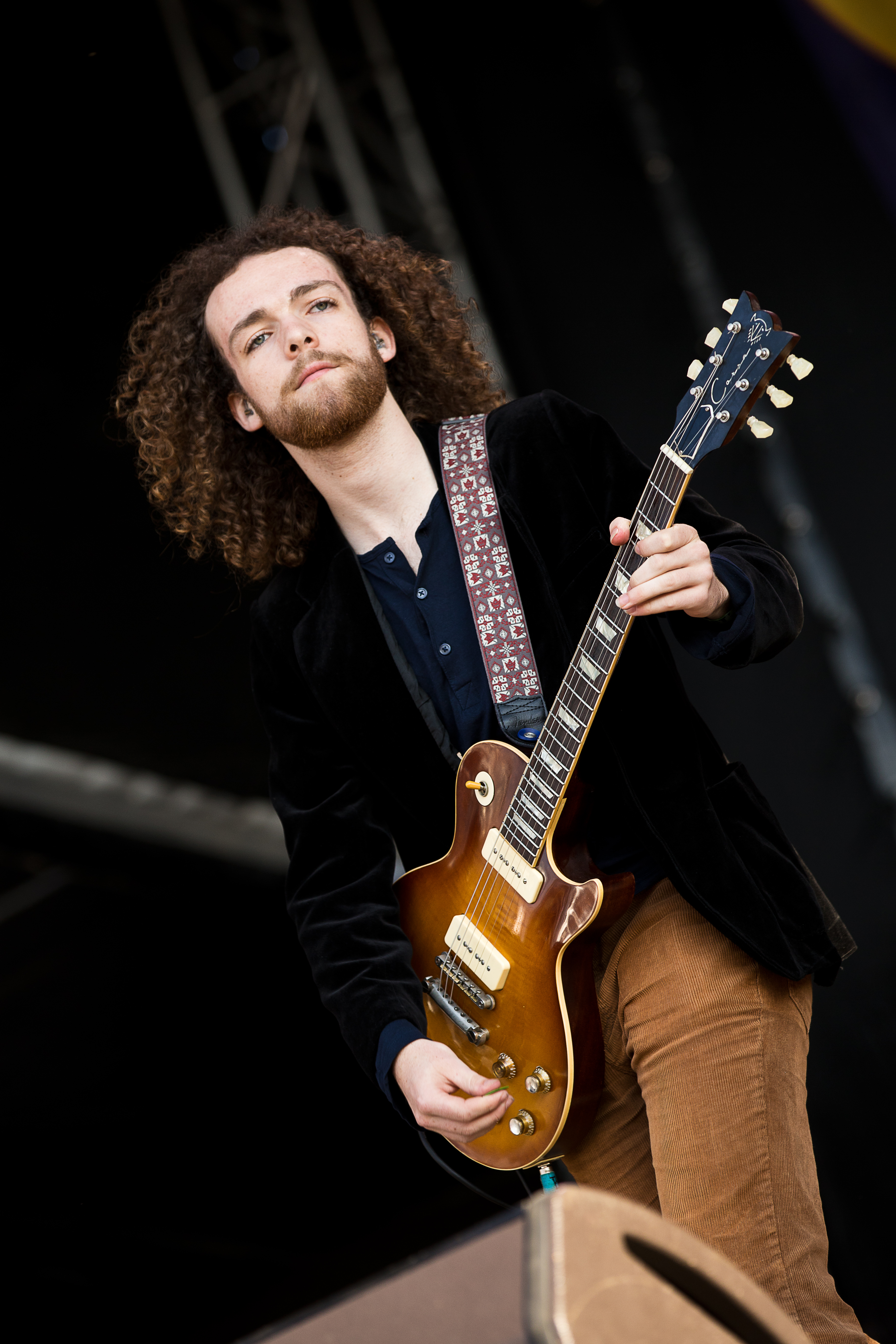 The Swedish blues rock band Blues Pills at the Rockharz Open Air 2015 in Ballenstedt/Germany.